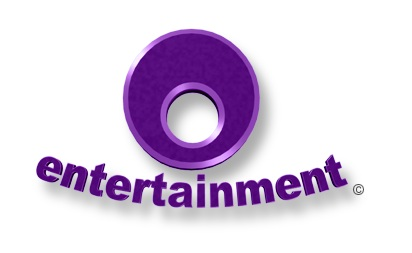 Company Logo